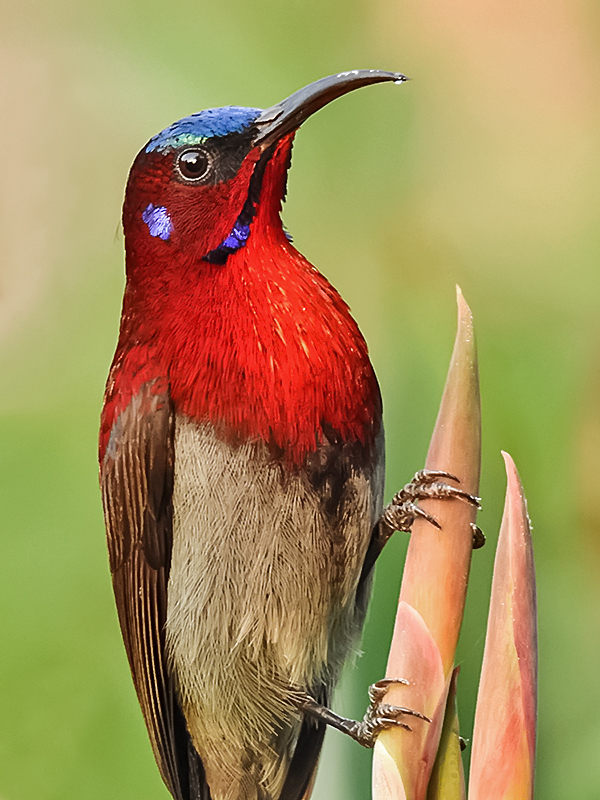 Vigors's sunbird or western crimson sunbird (Aethopyga vigorsii) Photograph by Shantanu Kuveskar, Location : Mangaon, Raigad, Maharashtra, India.